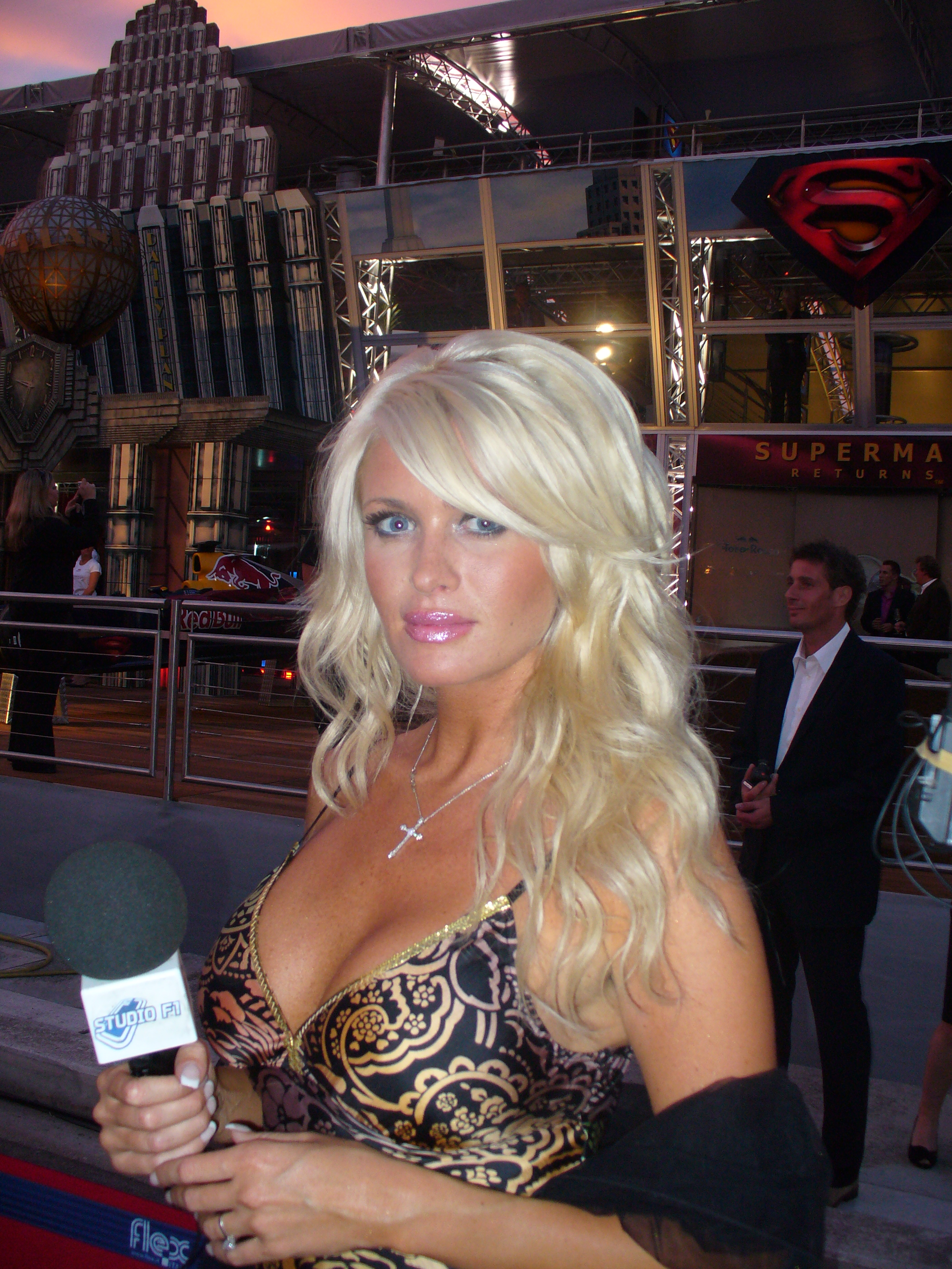 Carolina Gynning in Monte Carlo working as a reporter for TV3.